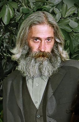 Photo of comics artist Michael Netzer, adapted from a photo Netzer commissioned from photographer Eli Cohen-Arazi in February 2006.